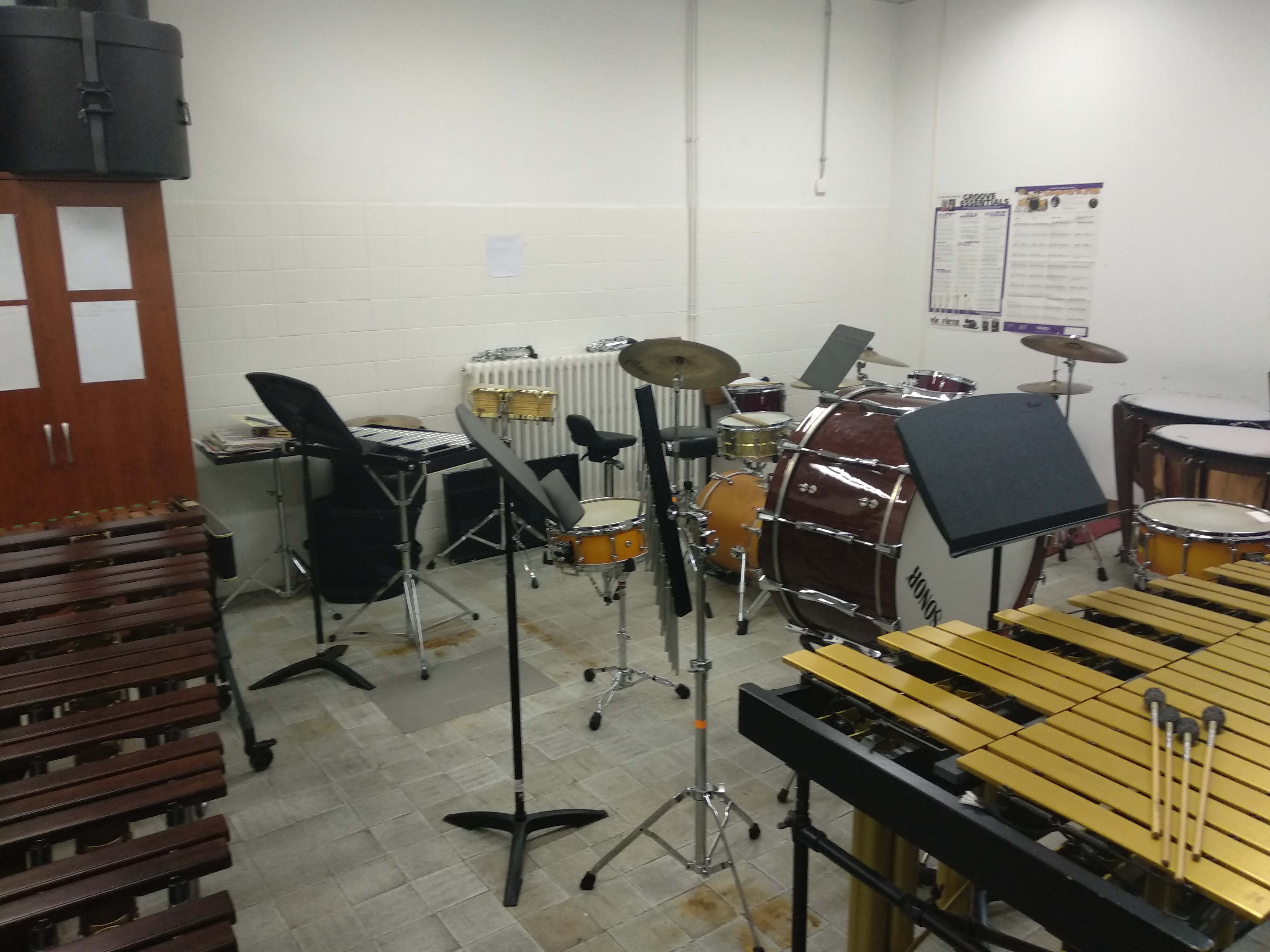 Percussion